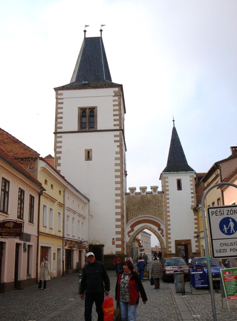 Vysoké Mýto, Litomyšl Gate from N